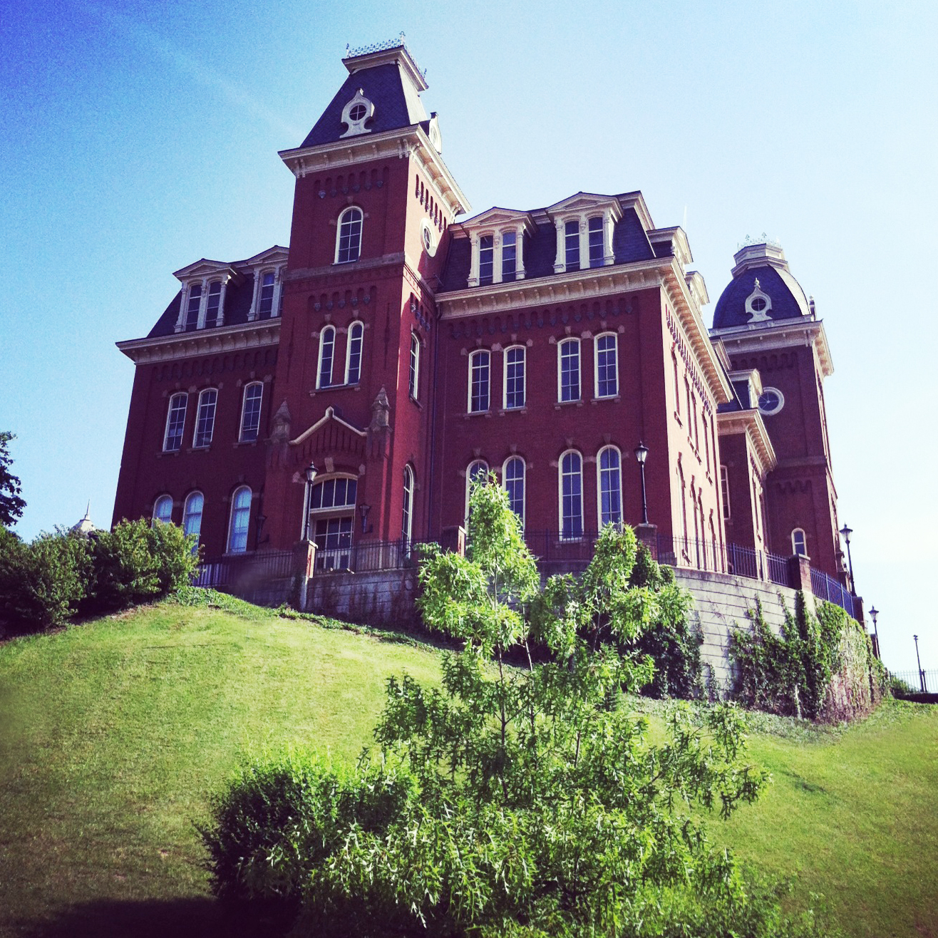 Woodburn Hall was completed in 1876 and is the centerpiece of Woodburn Circle, the oldest part of the WVU campus.